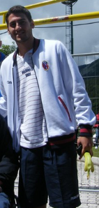 Manuel Gavilán with Bologna FC.